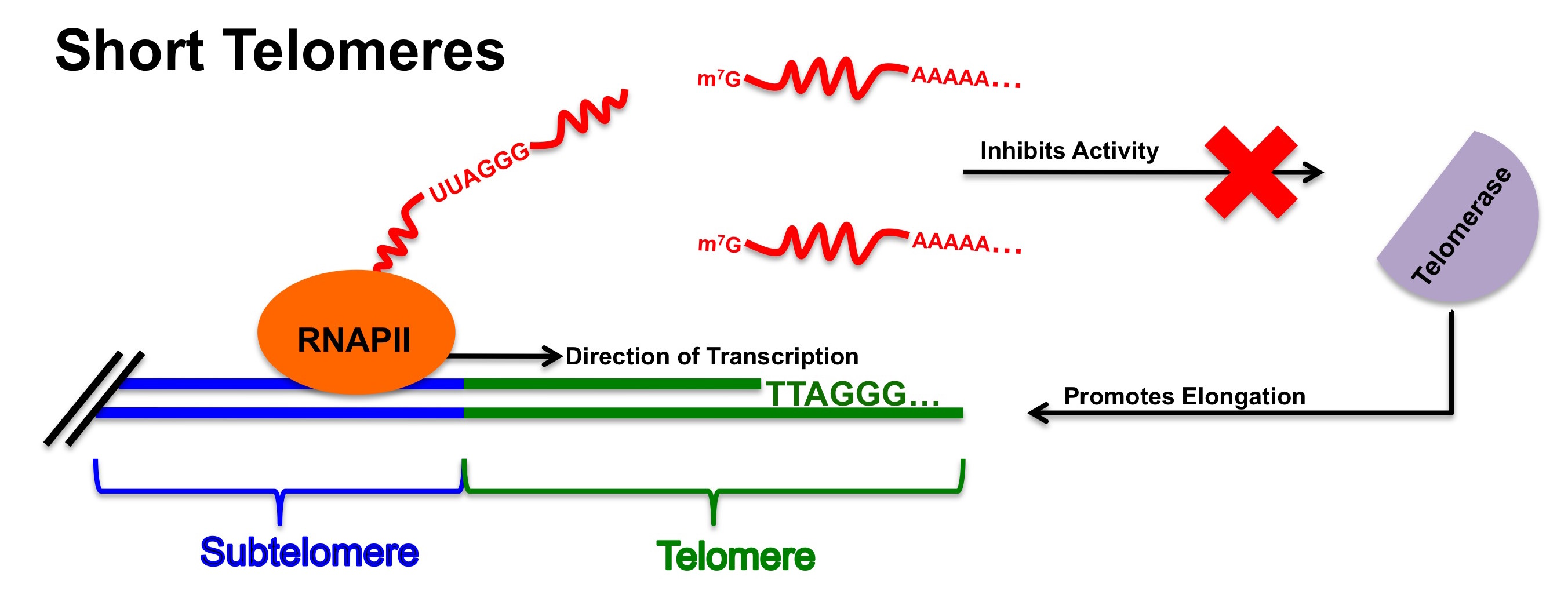 At short telomeres, the relative lack of TERRA transcription prevents efficient association with telomerase, thereby allowing for elongation of telomeres